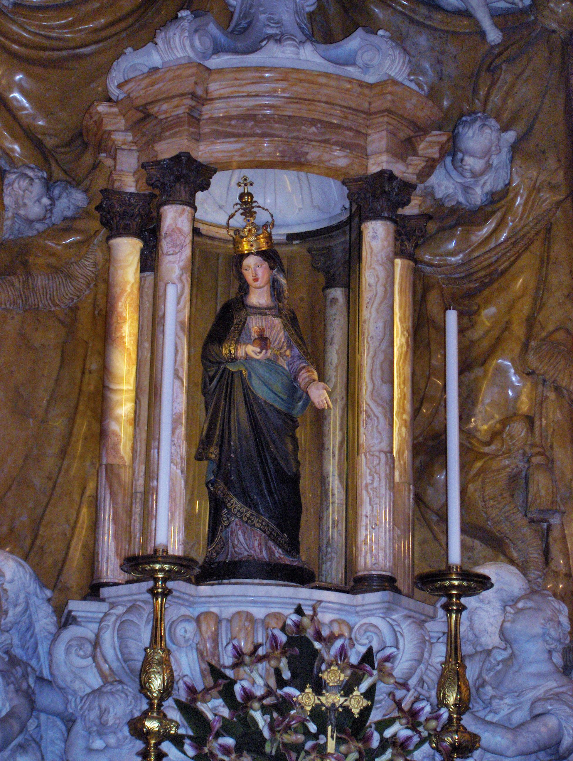 Side altar in the church of St. James and St. Philip (Chiesa parrocchiale dei Santi Giacomo e Filippo); Taggia, Liguria, Italy